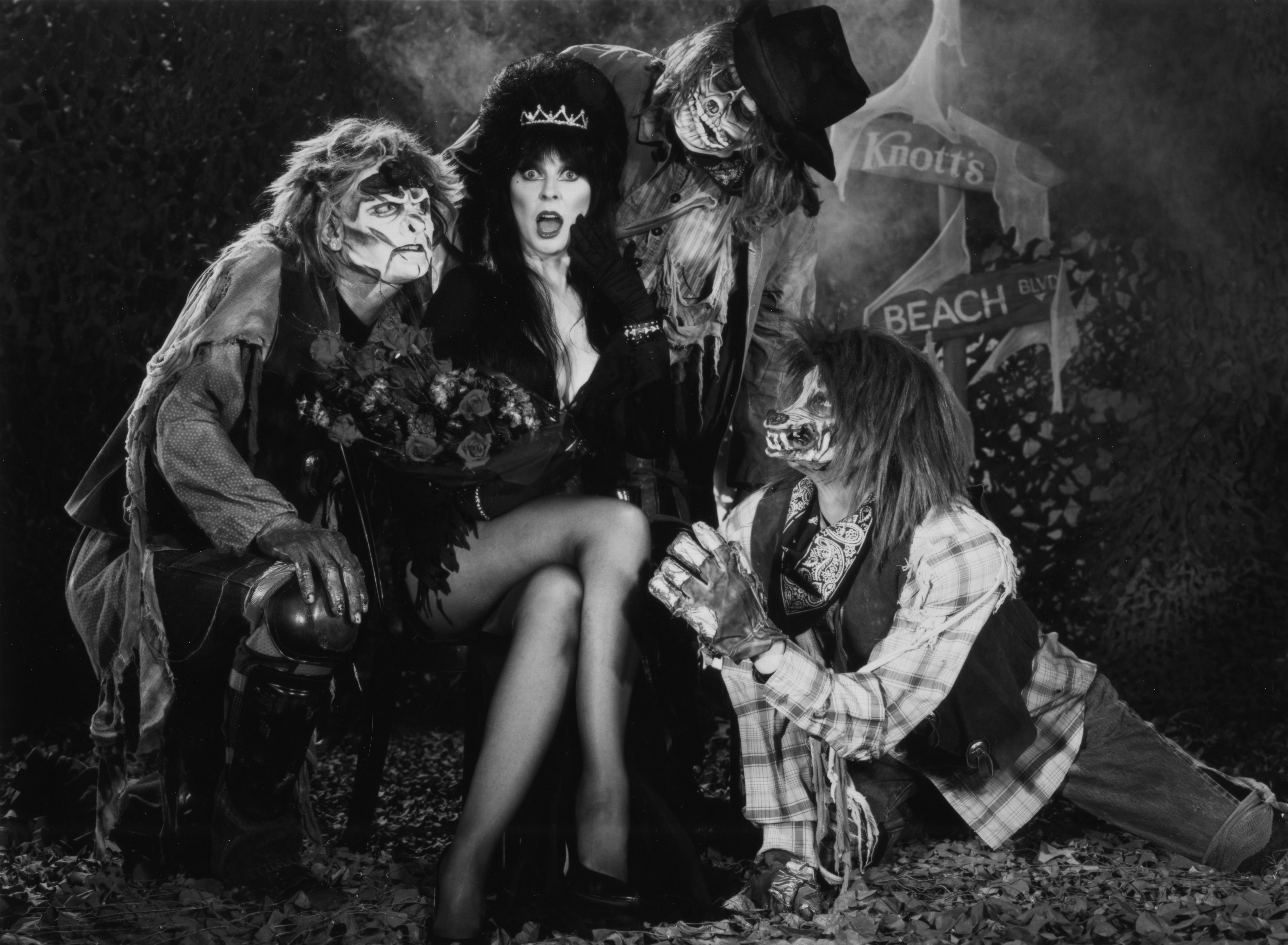 Photo used to promote Elvira's appearances at Knott's Berry Farm's 1997 Halloween Haunt in Buena Park. There are no known copyright restrictions on this image. All future uses of this photo should include the courtesy line, "Photo courtesy Orange County Archives." Comments are welcome after reading our Comment Policy. From the Knott's Berry Farm Collection